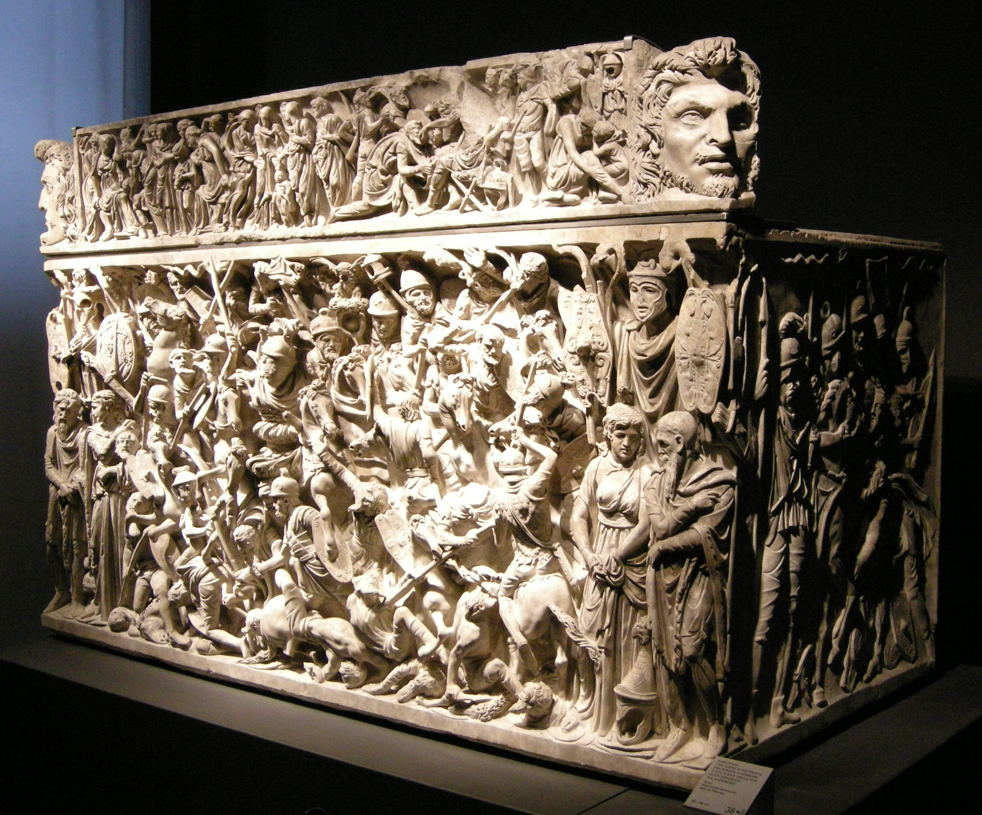 read filename